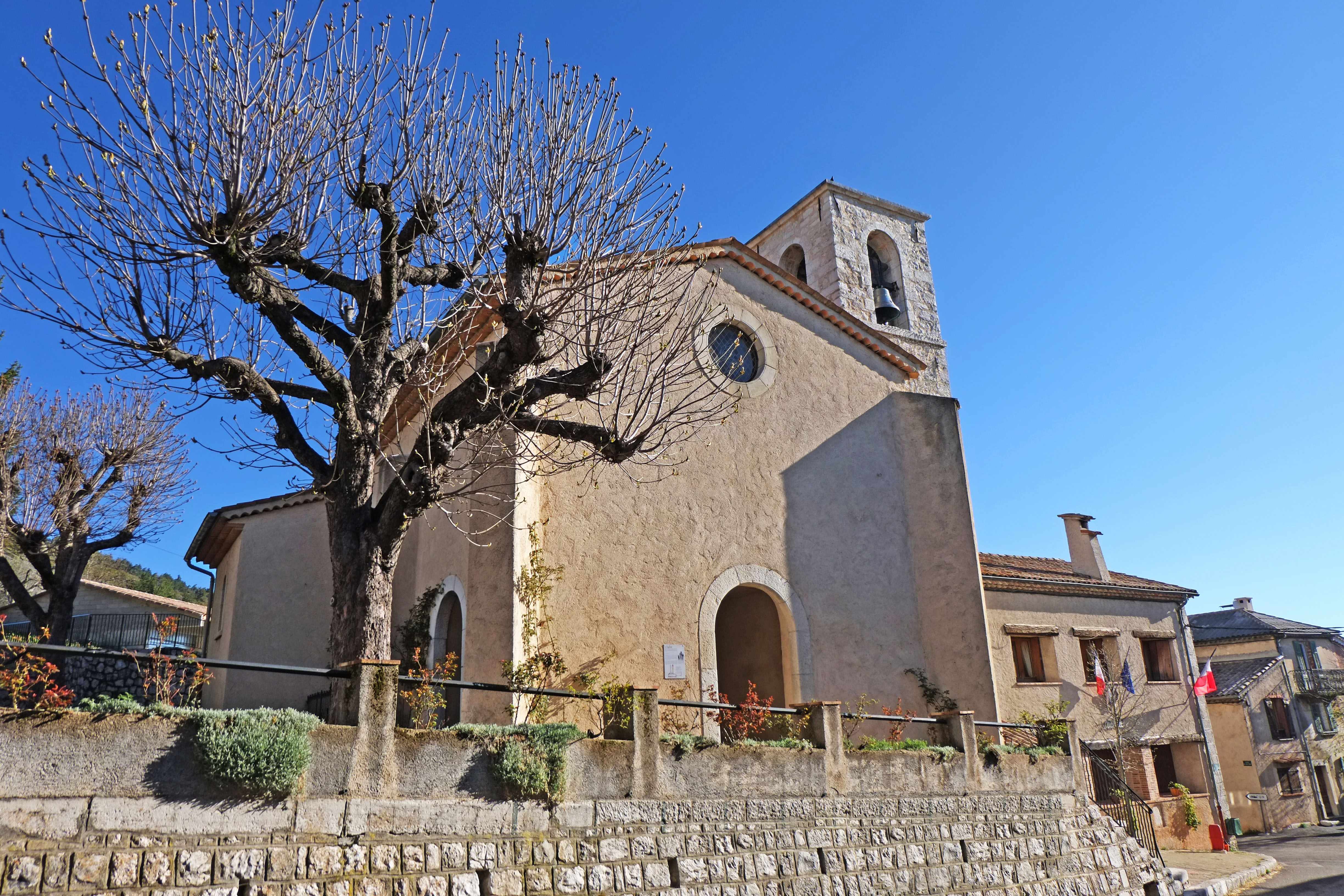 The church of Caille